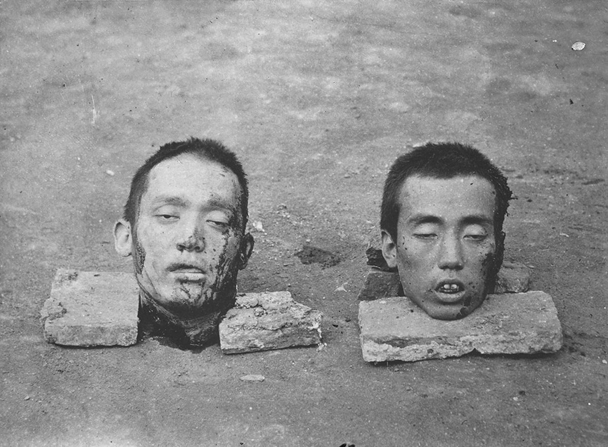 Beheading of the revolutionists. They were arrested and moved to trial by Qing troops. Being beheaded on early morning, Oct.10, 1911. Soon the revolution began at that night.